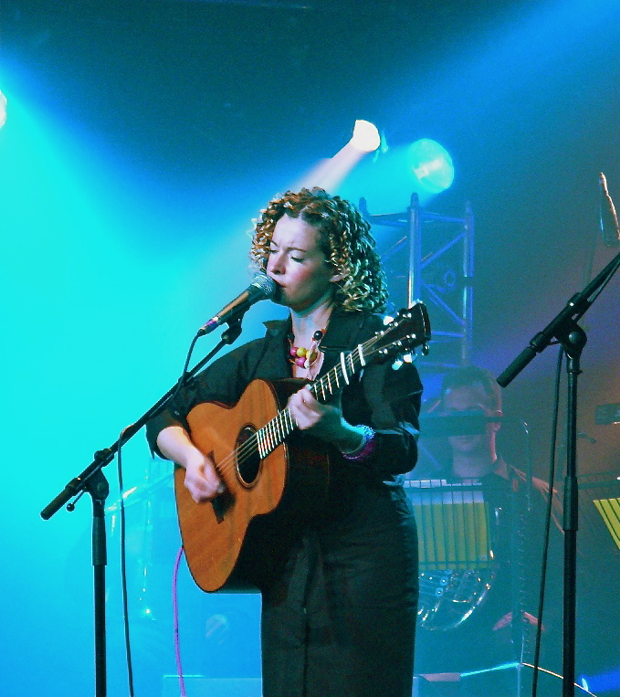 Sourced from Attributed to user: This image may be on Commons as :commons:File:KateRusbylive.jpg